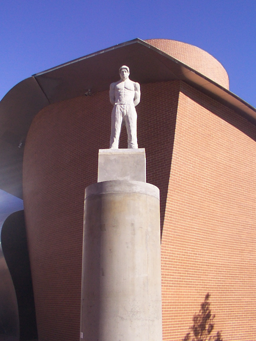 “ by Paolo Chiasera, showing Tupac Shakur, a rapper from the United States at the entrance of the MARTa in the city of Herford.